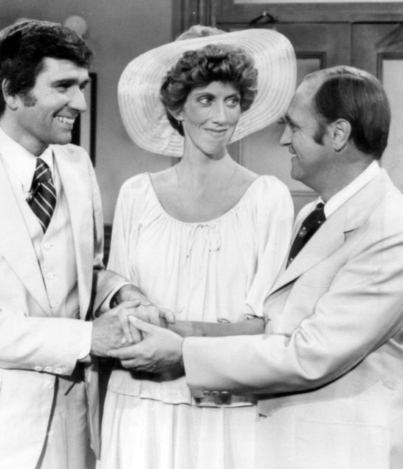 Publicity photo from the television program The Bob Newhart Show. In this episode, Carol (Marcia Wallace) marries Larry Bondurant (Will MacKenzie). Also pictured is Bob Hartley (Bob Newhart).